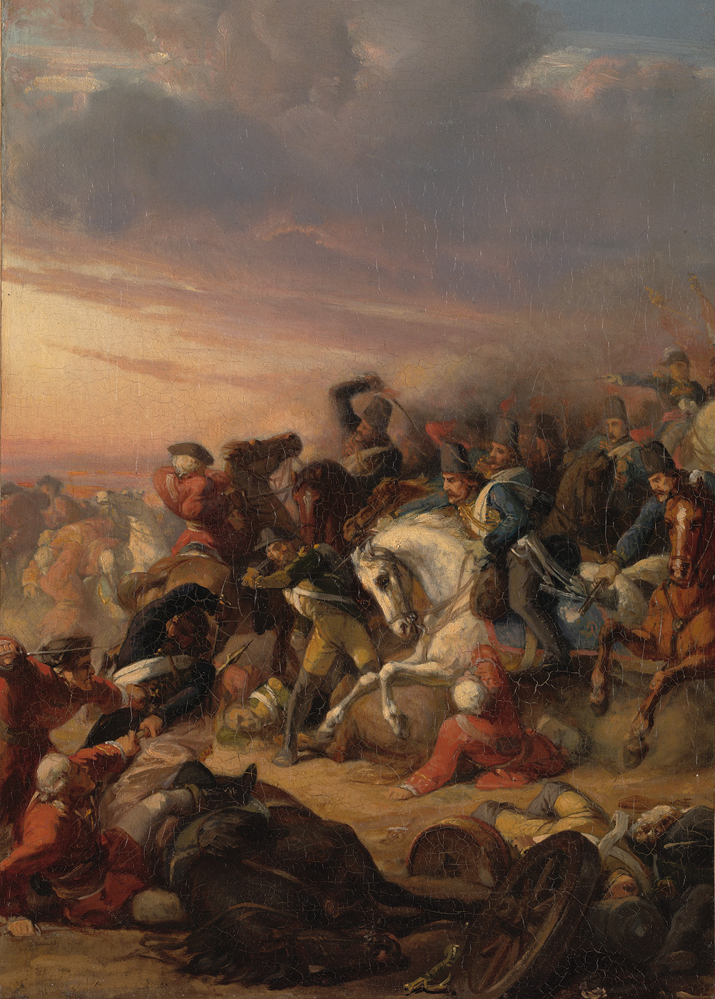 History painting